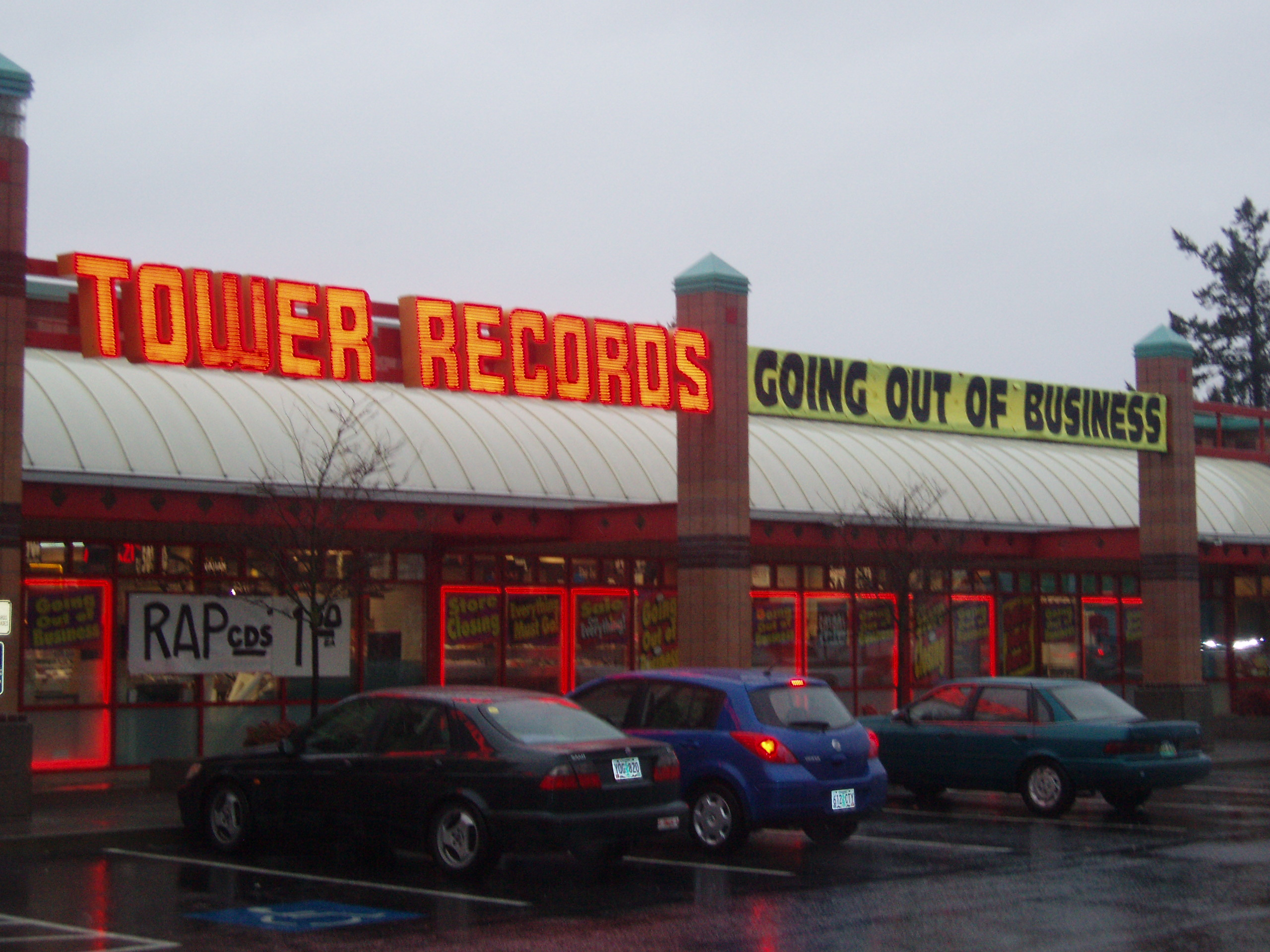 A Tower Records store holding a liquidation sale located in Portland, Oregon